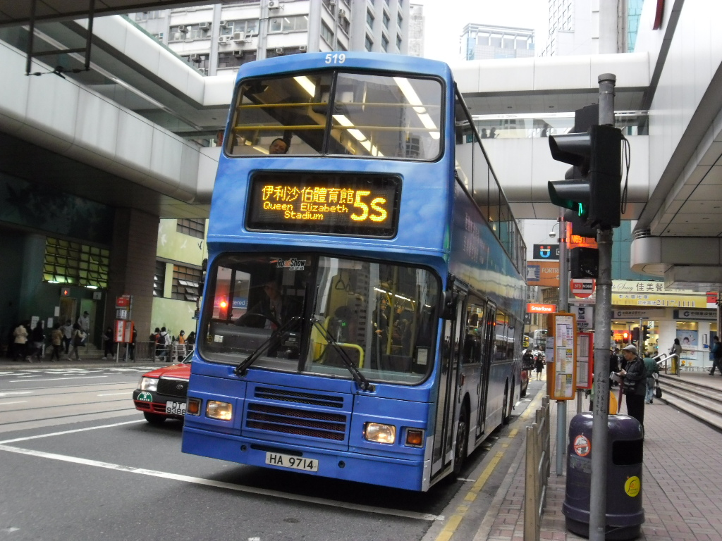 Citybus Route 5S, run on morning peak only中文（香港）: 1996年富豪奧林比安行駛城巴5S線，駛經德輔道中